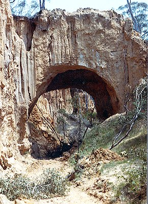 Golden Gully and Archway: The Grand Arch is approximatley 5 metres in diameter. In the top left corner is the remains of a vertical shaft originating from the level of the creek bed as it was in 1851.